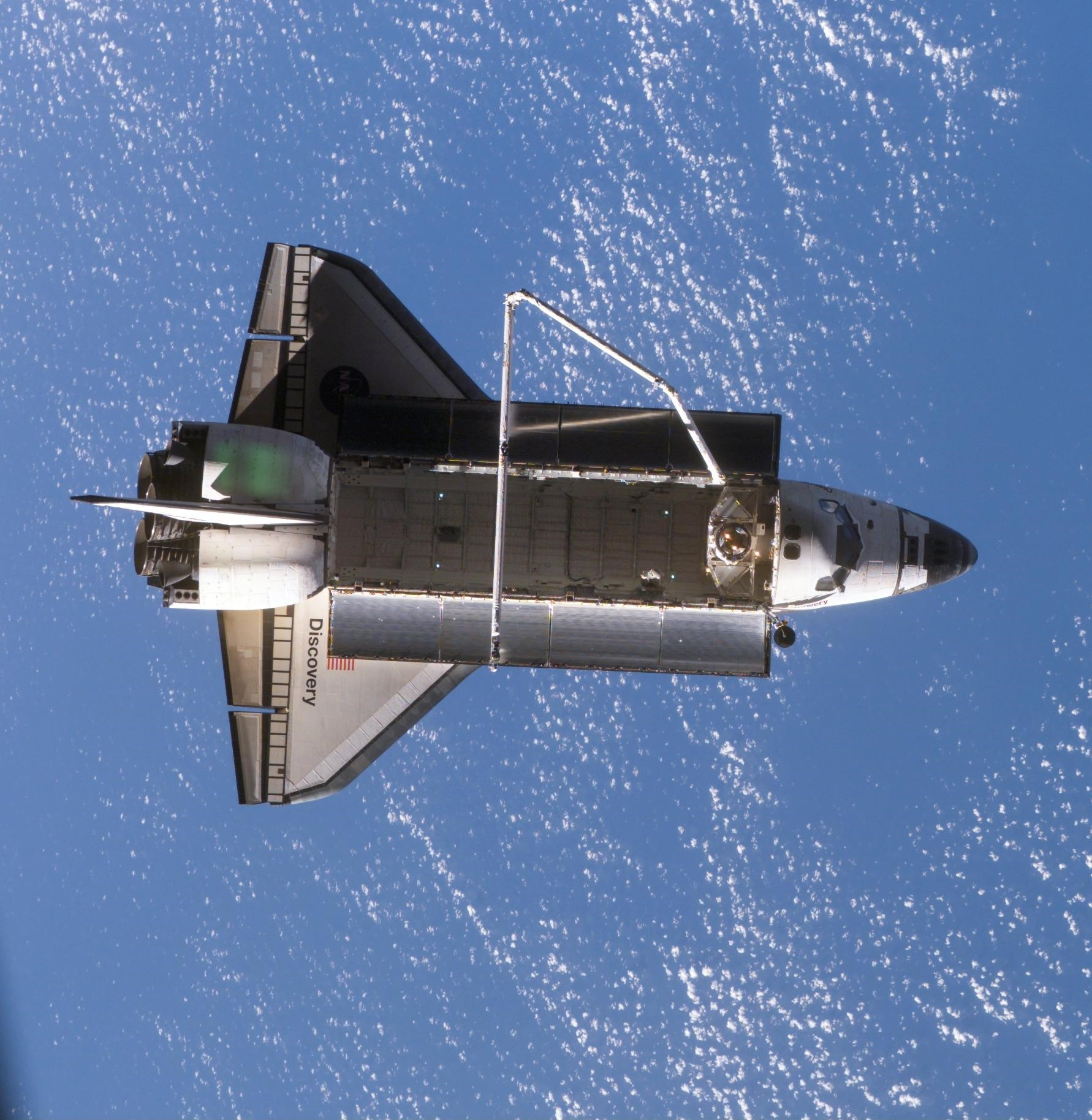 Backdropped by a blue and white Earth, Space Shuttle Discovery is featured in this image photographed by an Expedition 16 crewmember after the shuttle undocked from the International Space Station. Earlier the STS-120 and Expedition 16 crews concluded 11 days of cooperative work onboard the shuttle and station. Undocking of the two spacecraft occurred at 4:32 a.m. (CST) on Nov. 5, 2007.